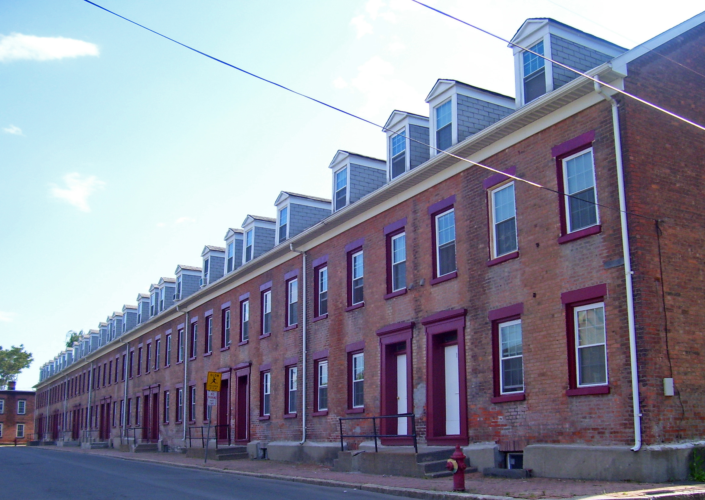 South view along west side of Olmstead Street in Cohoes, NY, USA